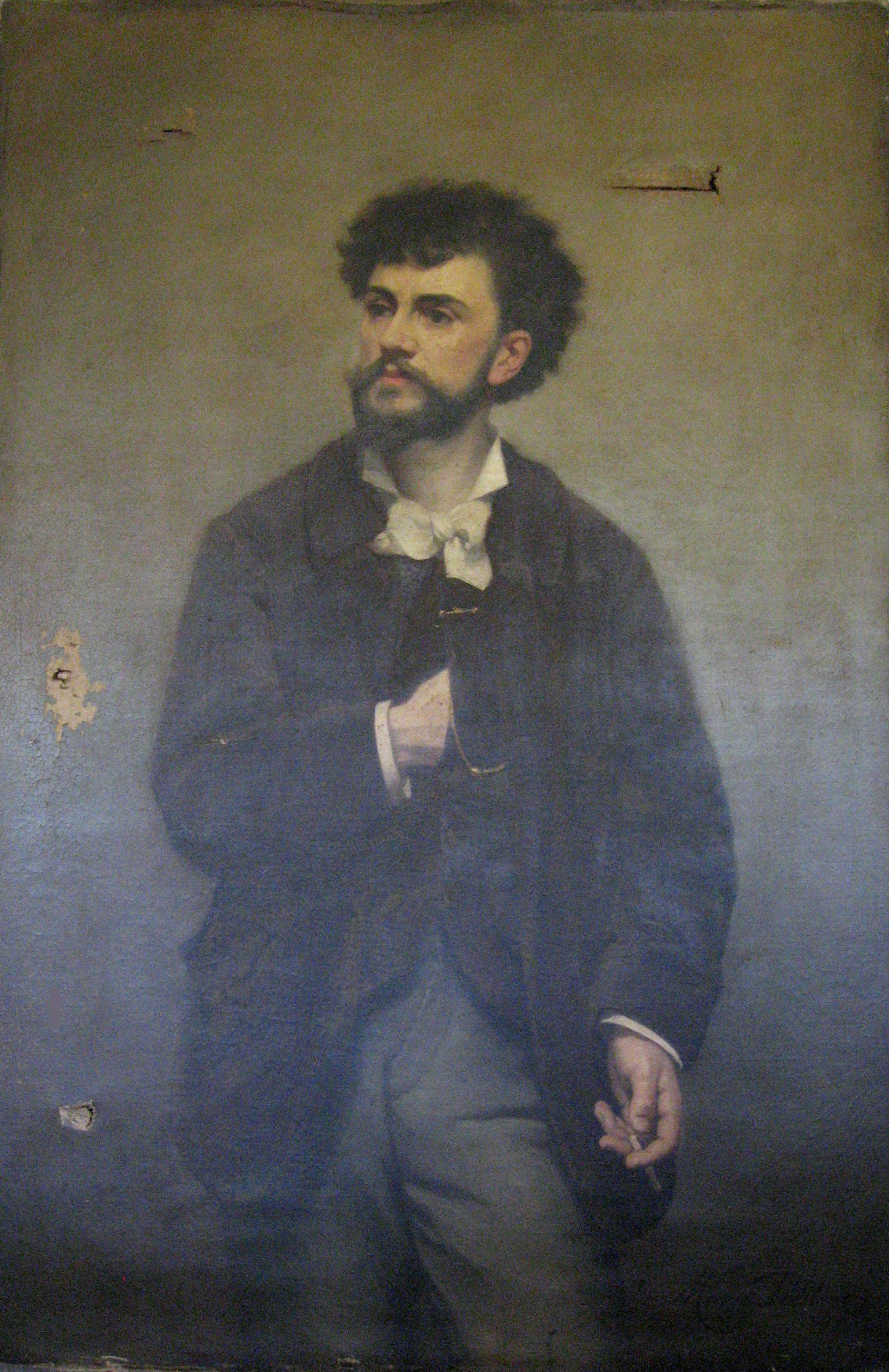 Portrait of the painter Adrien Lavieille, her husband